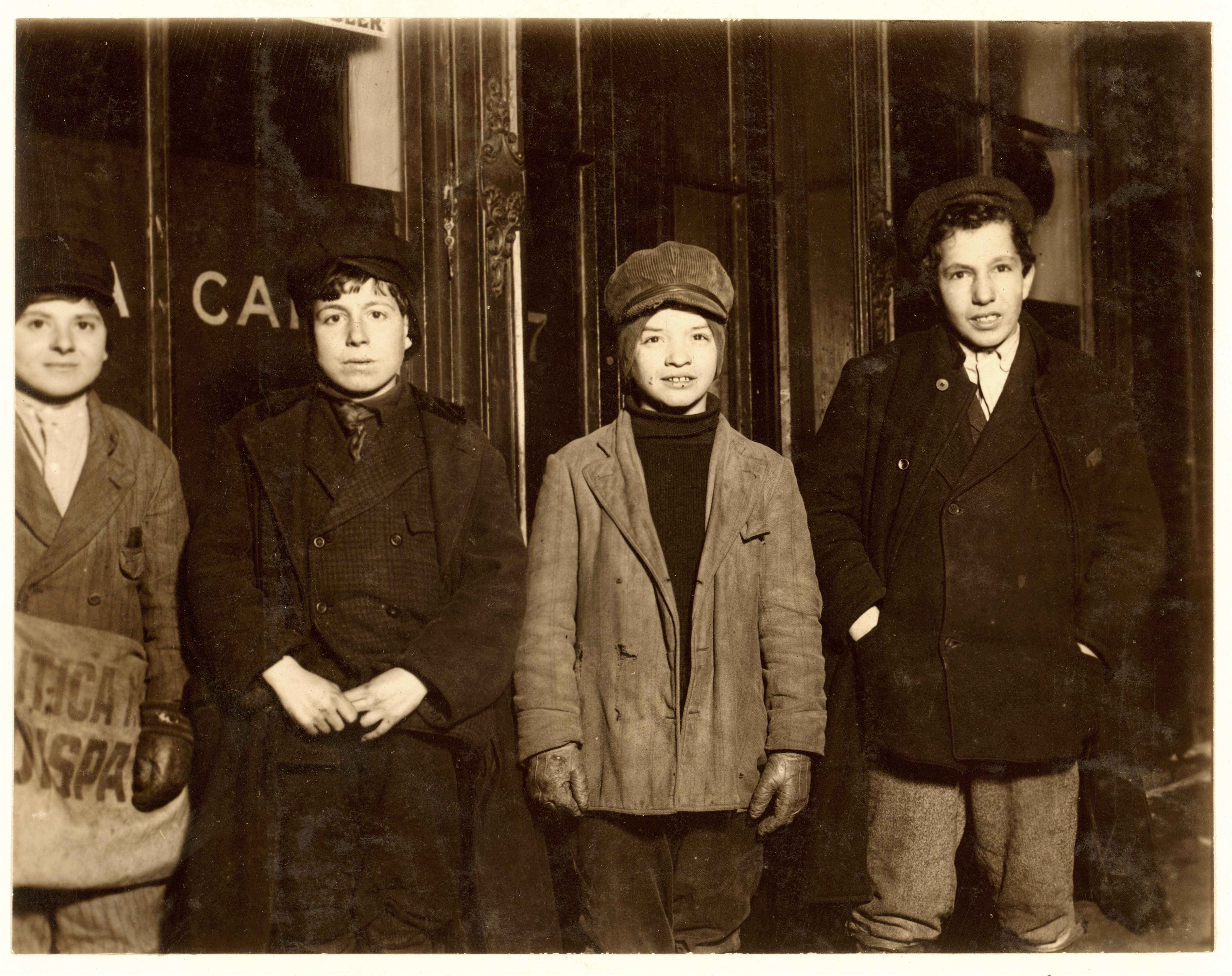 Sold out at 8:30 P.M. Left to right: Pasquale Lolara, 13 years, 147 Jay St. Ercola Guallilo, 13 years, 53 1/2 Park Ave. Jerry Paciello, 12 years, 410 Catherine St. Frank Graciana, 13 years, 14 Mohawk St. Location: Utica, New York. Photograph by Lewis Wickes Hine, February 1910.